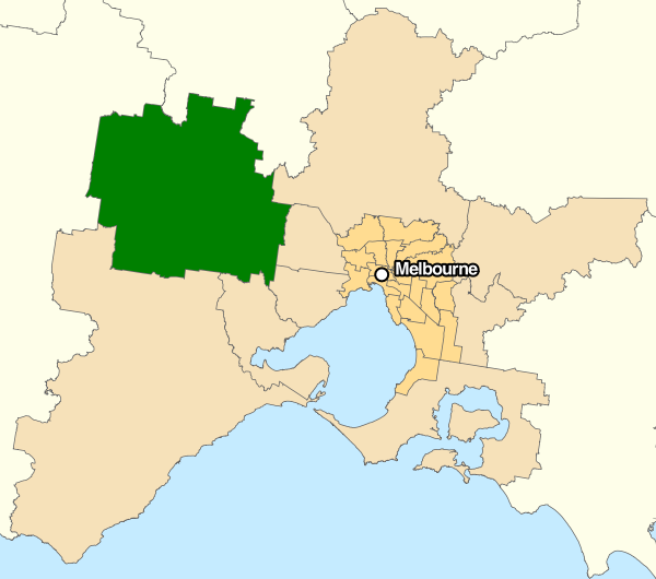 The Division of Ballarat (dark green) in the area surrounding Greater Melbourne. This image incorporates data that is: © Commonwealth of Australia (Australian Electoral Commission) 2014